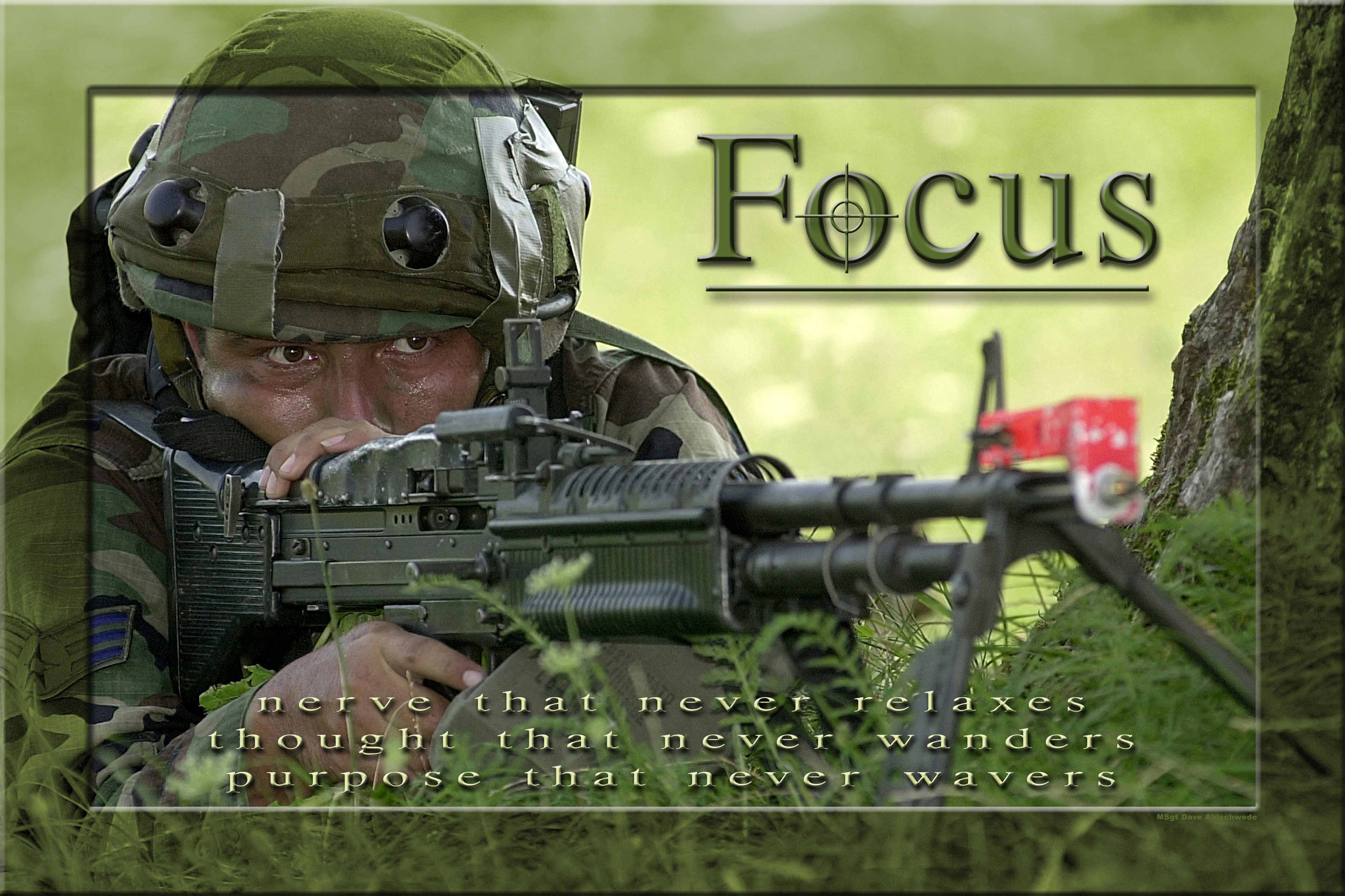 "Focus," a 30x20 inspirational poster created by the 31st Communications Squadron (CS), Visual Information, Aviano Air Base (AB), Italy. Subtitle:"Nerve that never relaxes; thought that never wanders; purpose that never wavers."